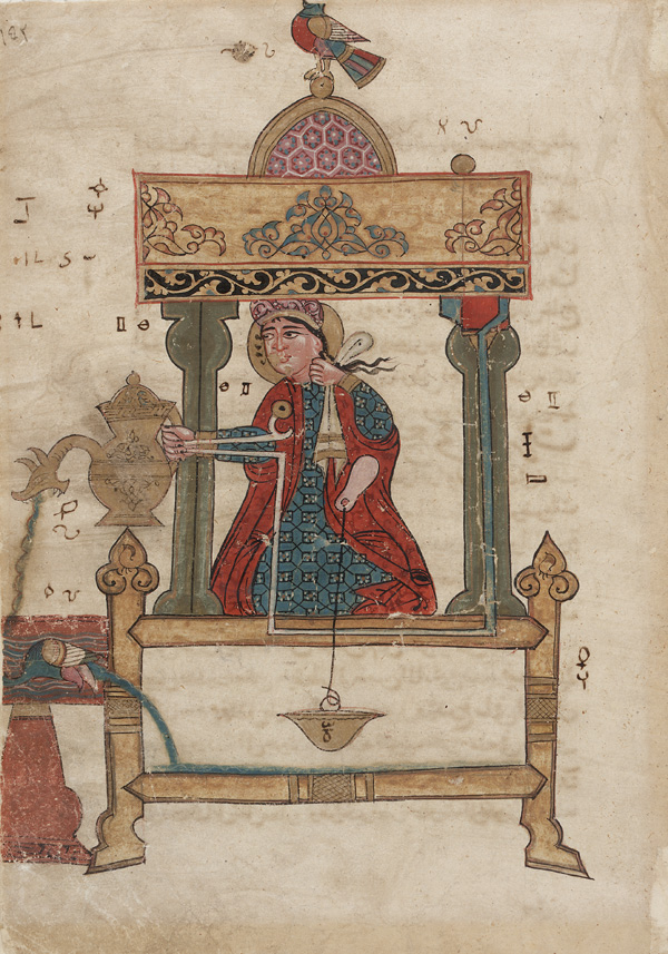 The Basin from a copy of Kitab fi ma'arifat al-hiyal al-handasiya (The Book of knowledge of ingenious mechanical devices), Automata, by al-Jazari. 1315 Detached folio; opaque watercolor, ink, and gold on paper H: 31.1 W: 21.6 cm Syria Purchase, F1930.75 Commonly referred to as the Automata al-Jazari's scientific text is among the most fascinating illustrated works from the Arab world. It is devoted to the construction of fifty mechanical devices, ranging from fountains, clocks, and automated palace gates to pitchers, locks, and bolts. One chapter discusses hand-washing devices, such as this large ewer held by a kneeling female attendant in a domed pavilion. Al-Jazari maintains that once the bird whistles, water pours into a basin below. A duck then drinks the used water and releases it through its tail into a container hidden under the platform.